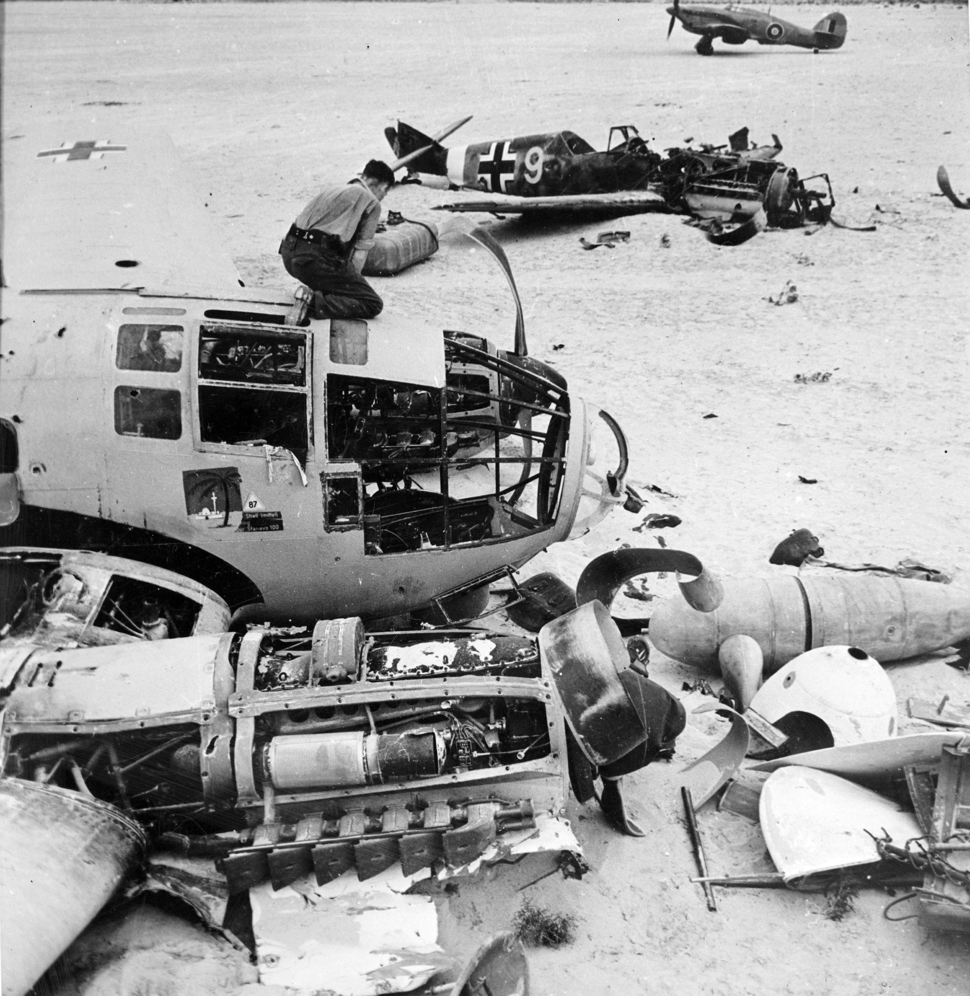 Ground crews of the Allied air forces dismantle a wrecked German Heinkel He 111 on a landing field between Daba and Fuka in Egypt, circa 1942. Note the wrecked Messerschmitt Bf 109F/G and the RAF Hawker Hurricane Mk.II in the background.